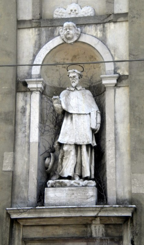 Statua della Facciata della Chiesa di San Bonaventura delle Eremite in Padova